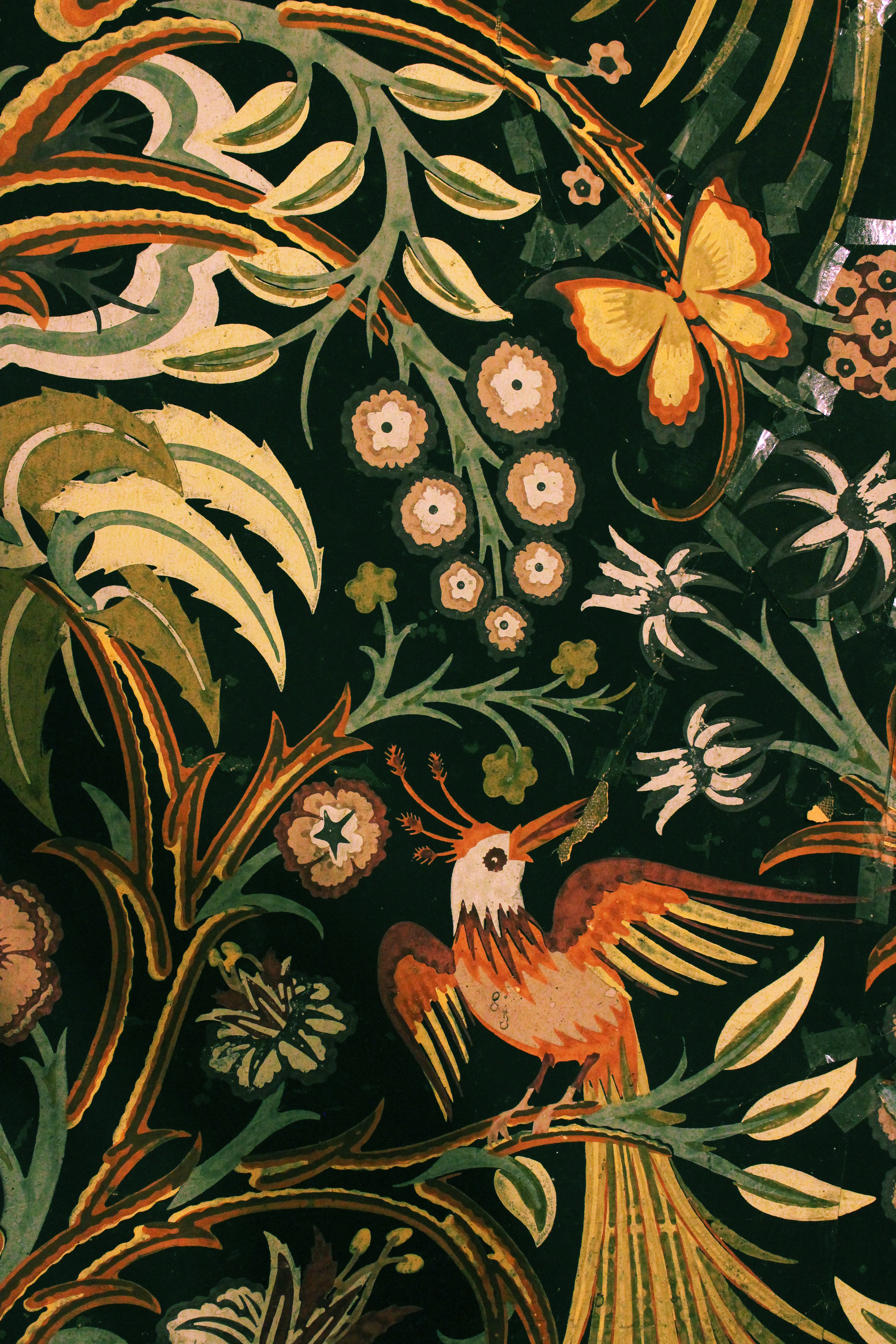 Detial of a piece of the original wallpaper of the boulevard theater in the Annahof, Vienna